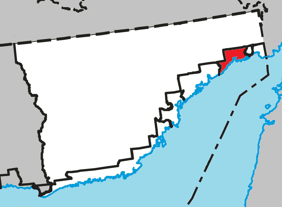 Location of Bonne-Espérance, Quebec within Le Golfe-du-Saint-Laurent Regional County Municipality.